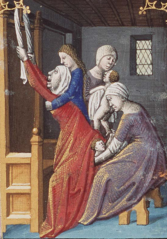 Birth of Esau and Jacob as an example of twin's fate against the arguments of astrology, by François Maitre, circa 1475-1480, detail from miniature at the Museum Meermanno Westreenianum, The Hague, from Augustine's "La Cité de Dieu", book I-X (translation from the Latin by Raoul de Presles) (manuscript "Den Haag, MMW, 10 A 11"). Book 5, 4.